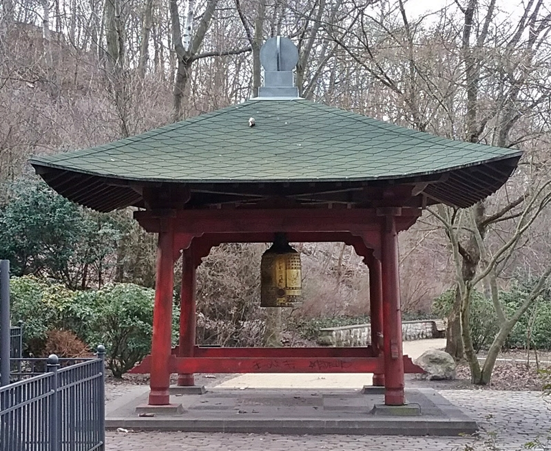 World peace bell in Volkspark Friedrichshain